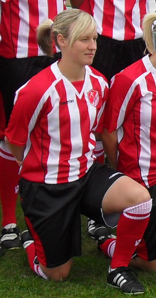 Footballer Remi Allen in Lincoln Ladies colours, September 2010